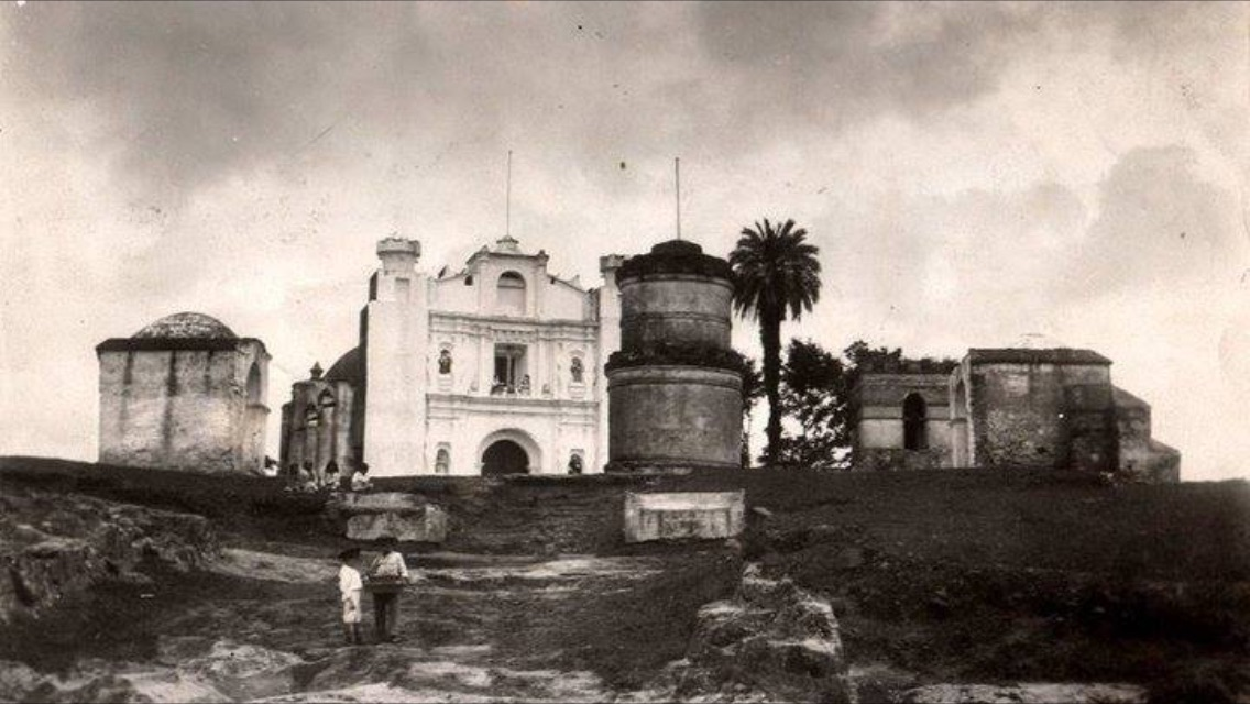 Cerrito del Carmen en 1900